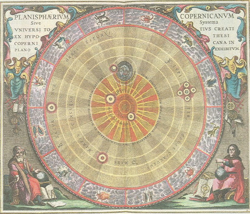 The solar system according to Nicolaus Copernicus in the Harmonia Macrocosmica by Andreas Cellarius (1660).